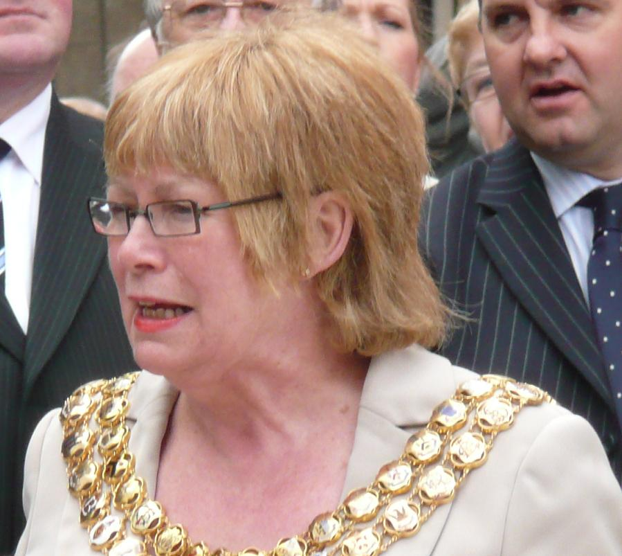 The mayor of Bolton , Councillor Mrs Barbara Ronson